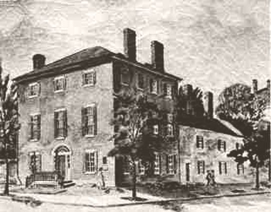 Photo of painting of Decatur House in Washington DC Photo enlarged, rendered by Gwillhickers